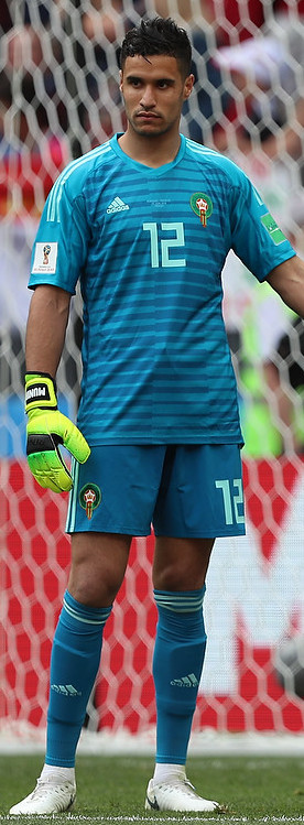 Portugal-Morocco match, 2018 FIFA World Cup